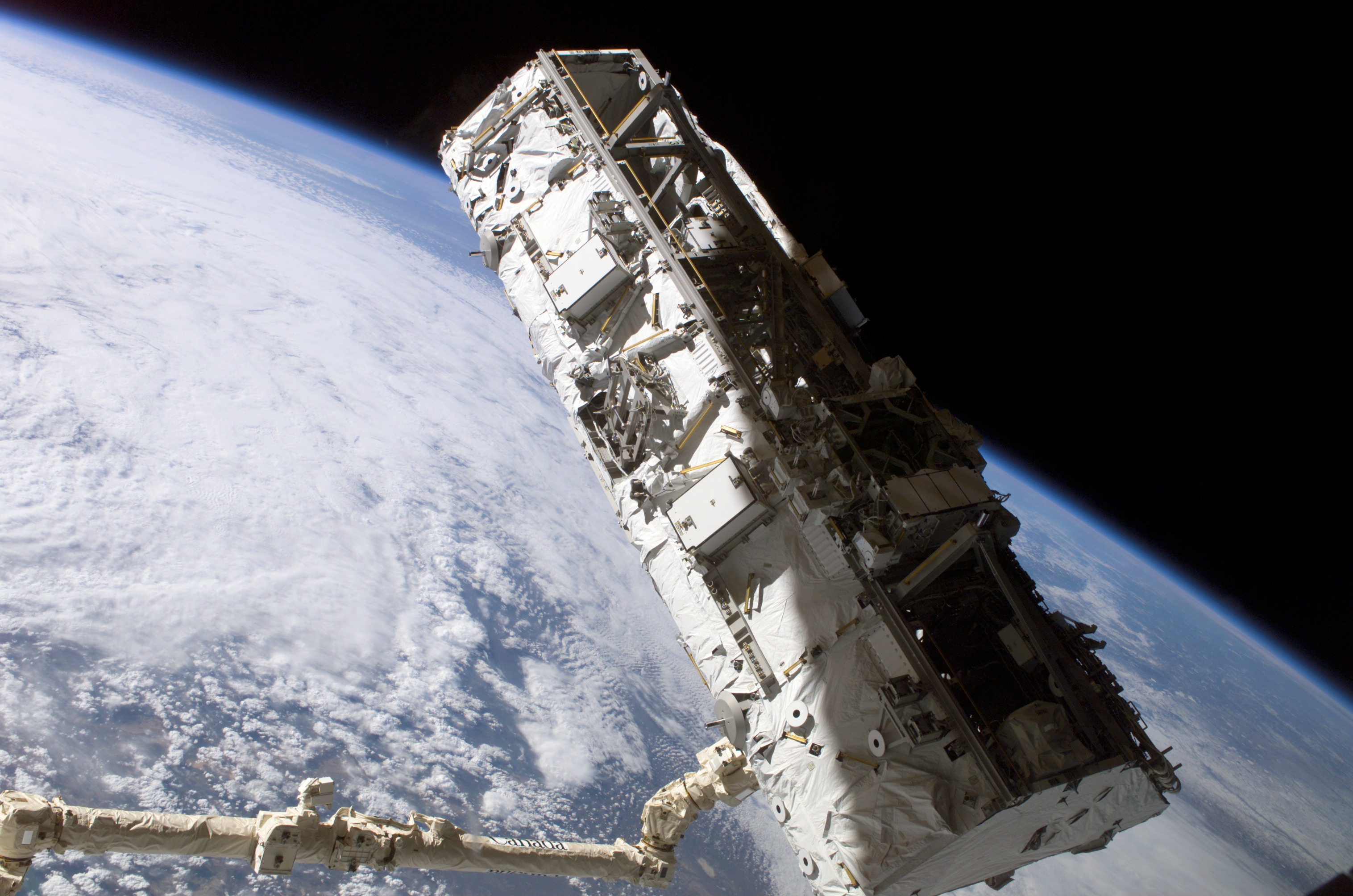 Backdropped by the blackness of space and Earth’s horizon, the S0 (S-Zero) Truss is moved from the Space Shuttle Atlantis’ cargo bay. Astronauts Ellen Ochoa, STS-110 mission specialist, and Daniel W. Bursch, Expedition Four flight engineer, used the International Space Station’s (ISS) Canadarm2 to lift the S0 Truss out of the orbiter’s payload bay and install it onto the temporary claw fixture on the Destiny laboratory. The image was taken with a digital still camera.